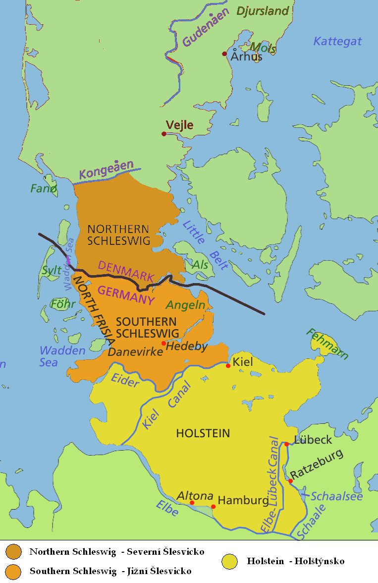 Map of Jutland Peninsula Southern Jutland (Sønderjylland in Danish) or Northern Schleswig (Nordschleswig in German): Danish since 1920; part of the Duchy of Schleswig until 1864; German from 1864 until 1920 Southern Schleswig (German since 1864; part of the Duchy of Schleswig until 1864; formerly considered part of Southern Jutland) Historical area of Holstein, sometimes considered part of Jutland Peninsula - south to the Elbe and the Elbe-Lübeck Canal